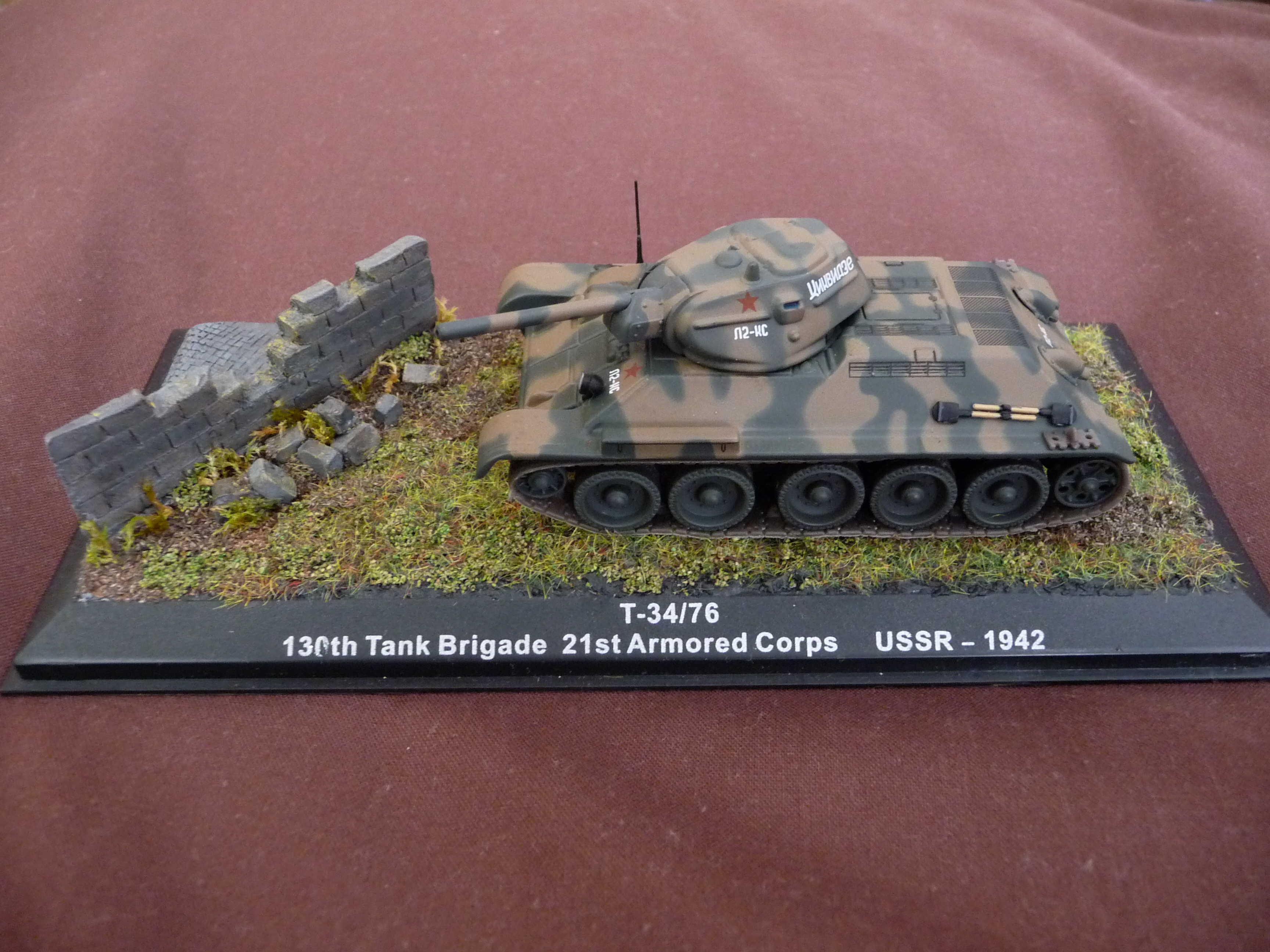 Scale model of a T-34 Model 1941.